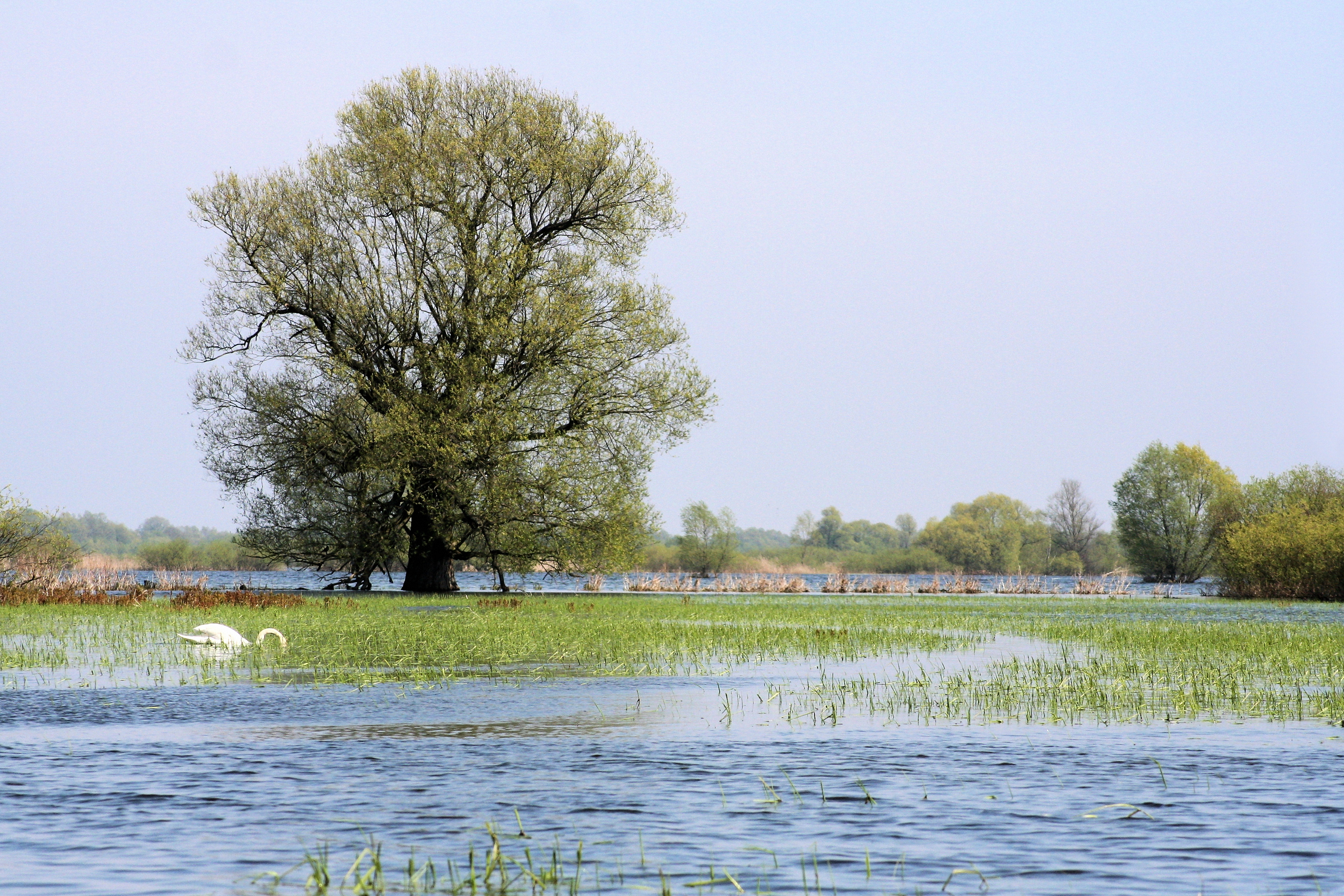 Ujście Warty National Park, view near Kostrzyn nad Odrą